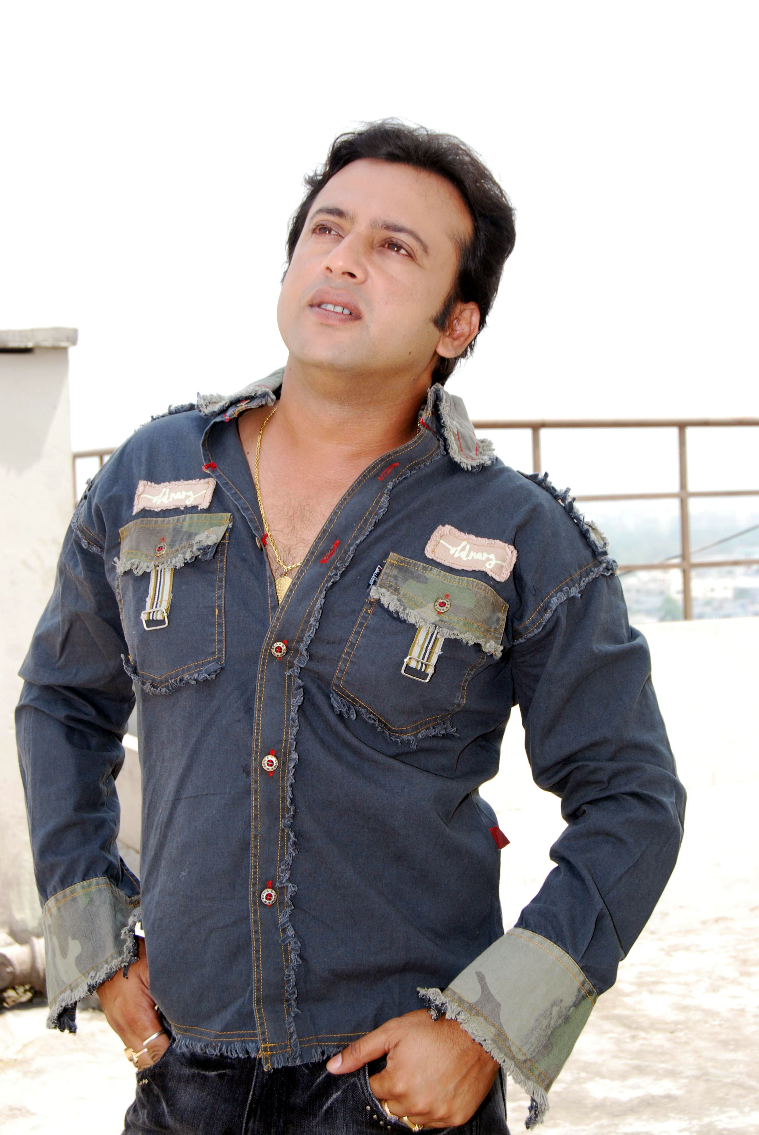 Bangladeshi film actor Riaz (Riazuddin Ahamed Siddique) at own flats top in 2011.